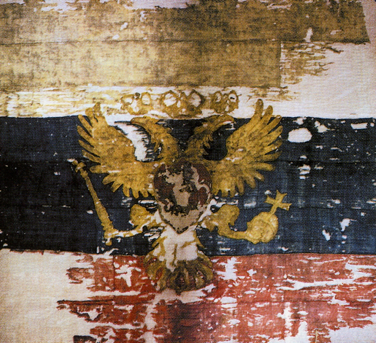 Flag of the Tsar of Moscow (Moscow Military museum).